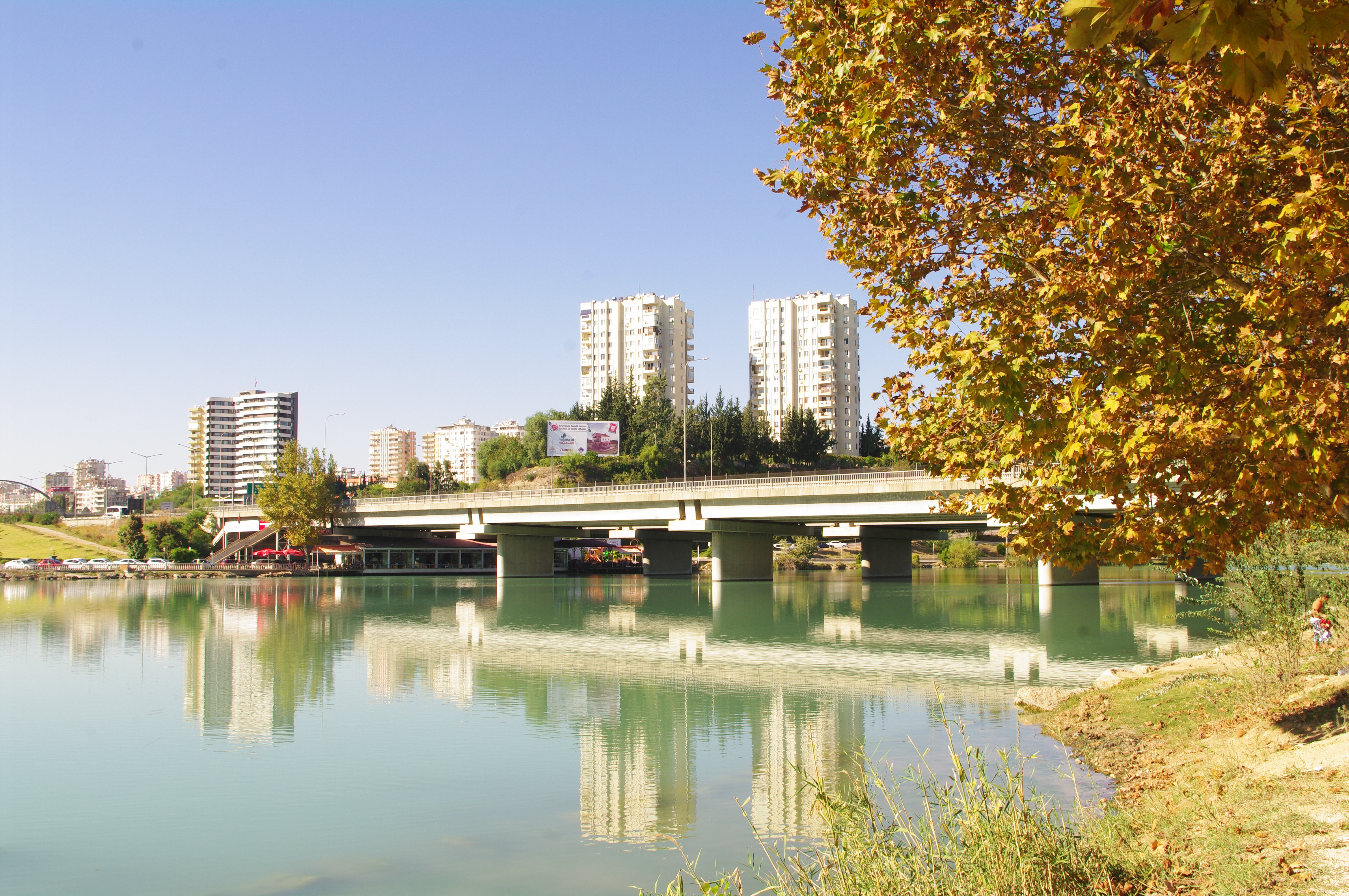 A view of the bridge on Tarsus-Adana-Gaziantep Motorway near Dilberler Sekisi Park in Yenibaraj Mah. in Seyhan, Adana - Turkey.